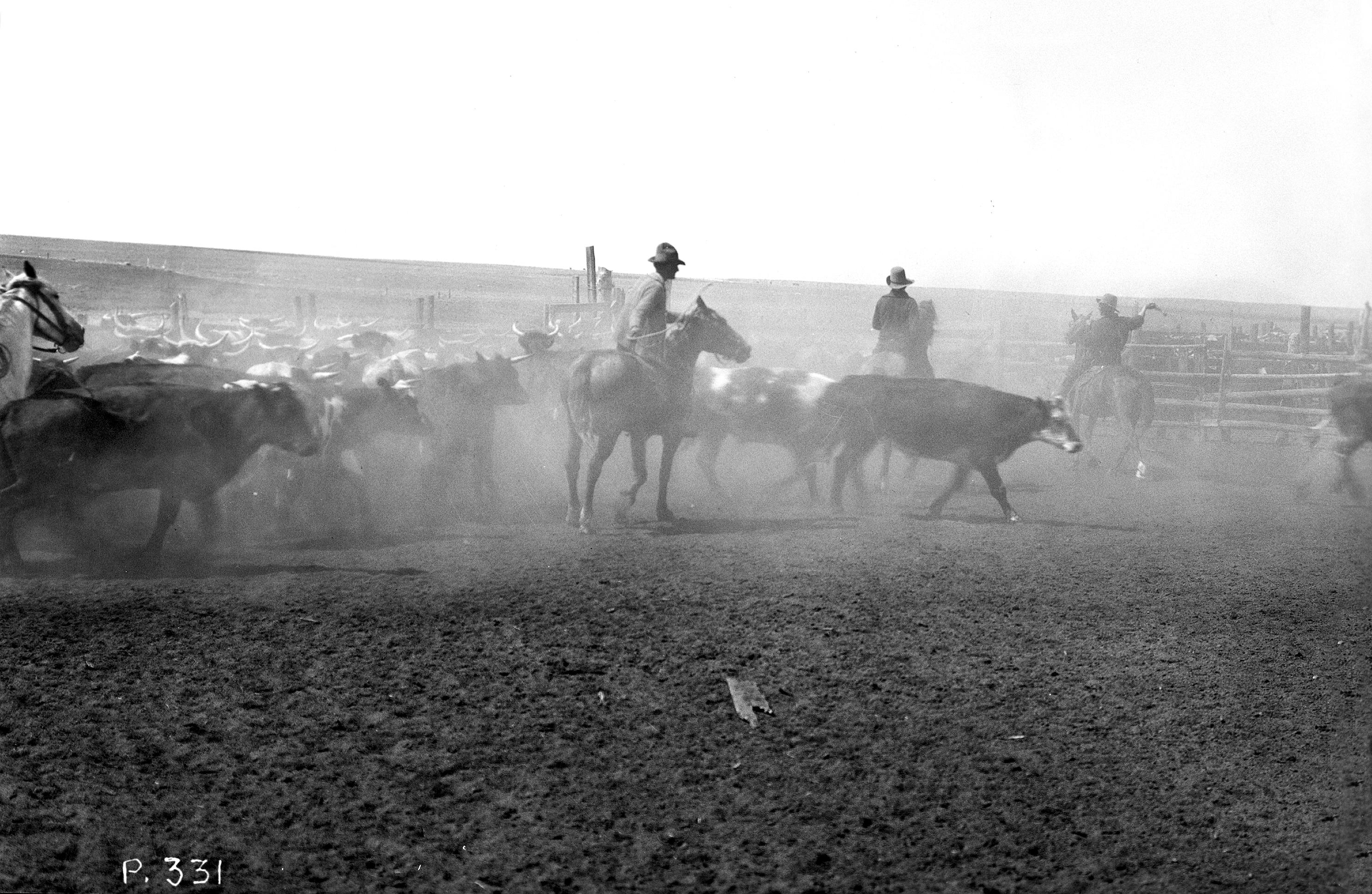 Provincial Archives of Alberta, P331.